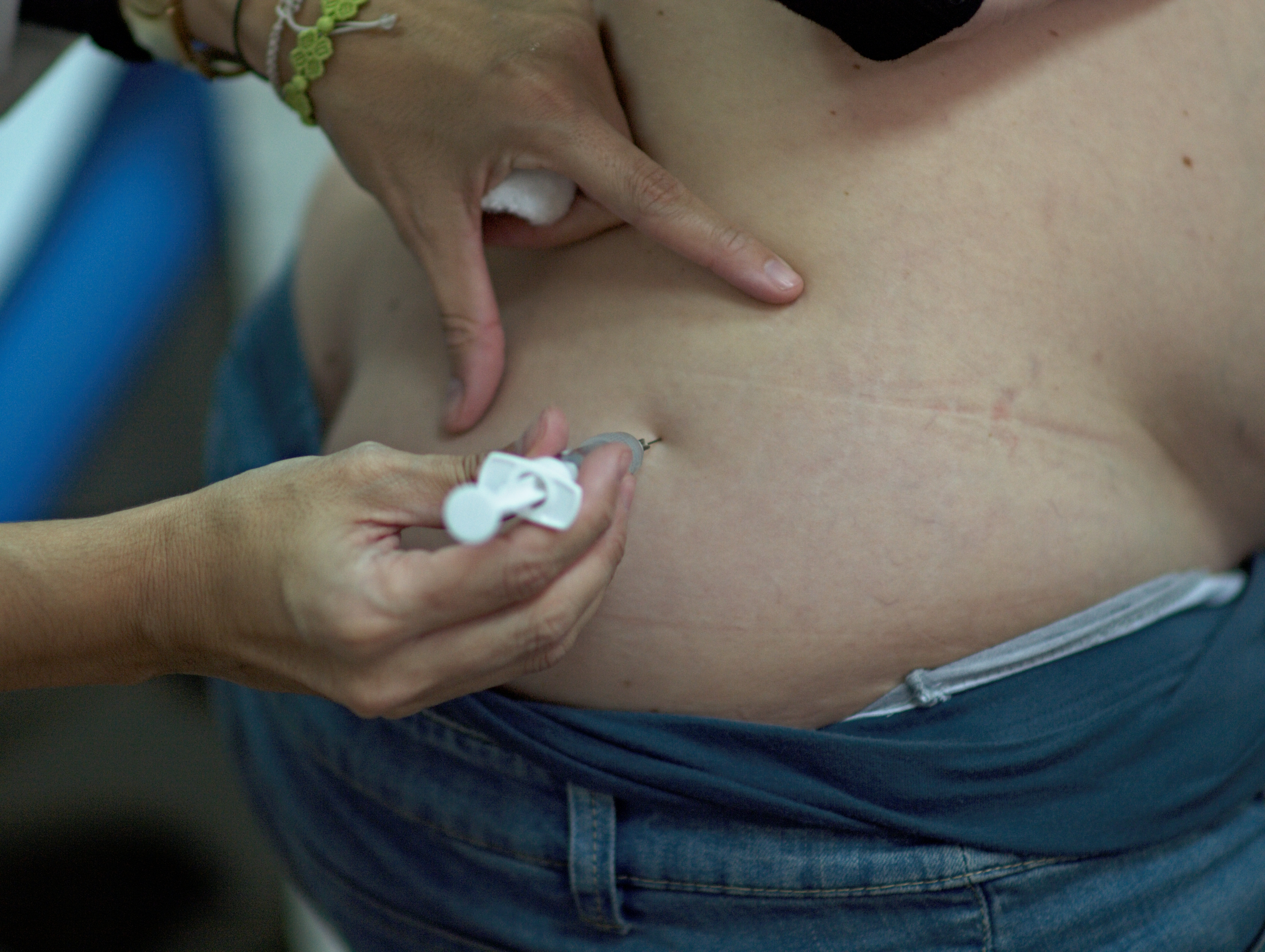 Injection of gamma globulin in the buttock of a pregnant woman.